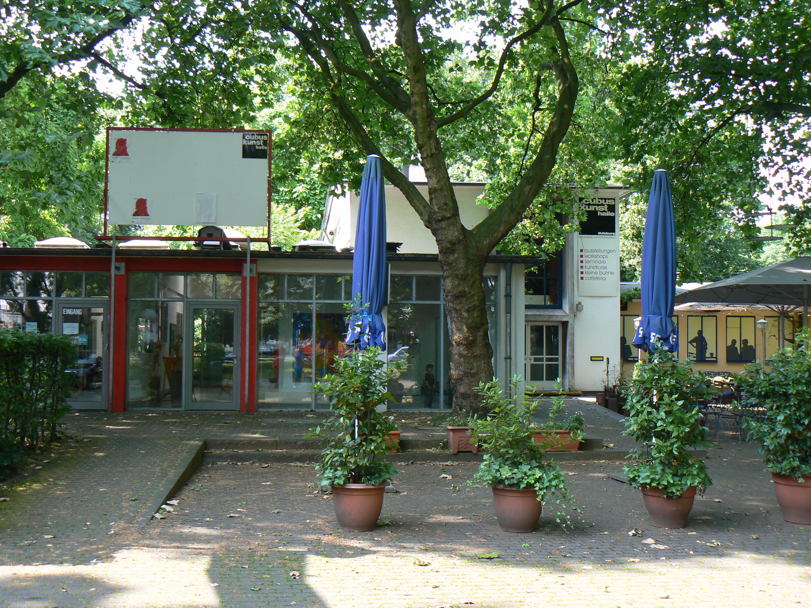 cubus kunsthalle next to the Lehmbruck-Museum in Duisburg/Germany. 2008